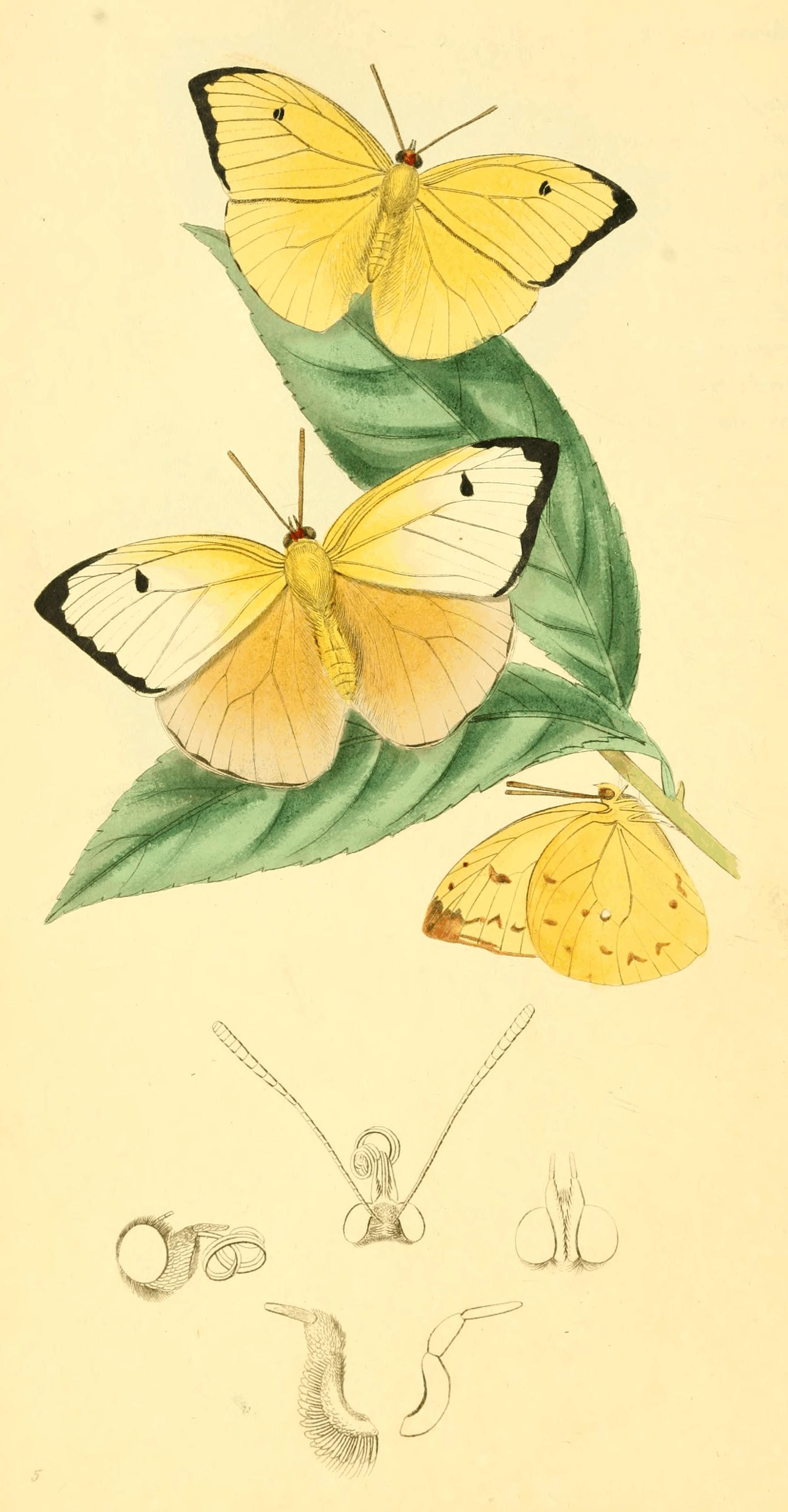 Plate 5. Colias Statira. Modern accepted name (2012) is Aphrissa statira[1] (Swainson gives synonym Papilio Statira Cramer).